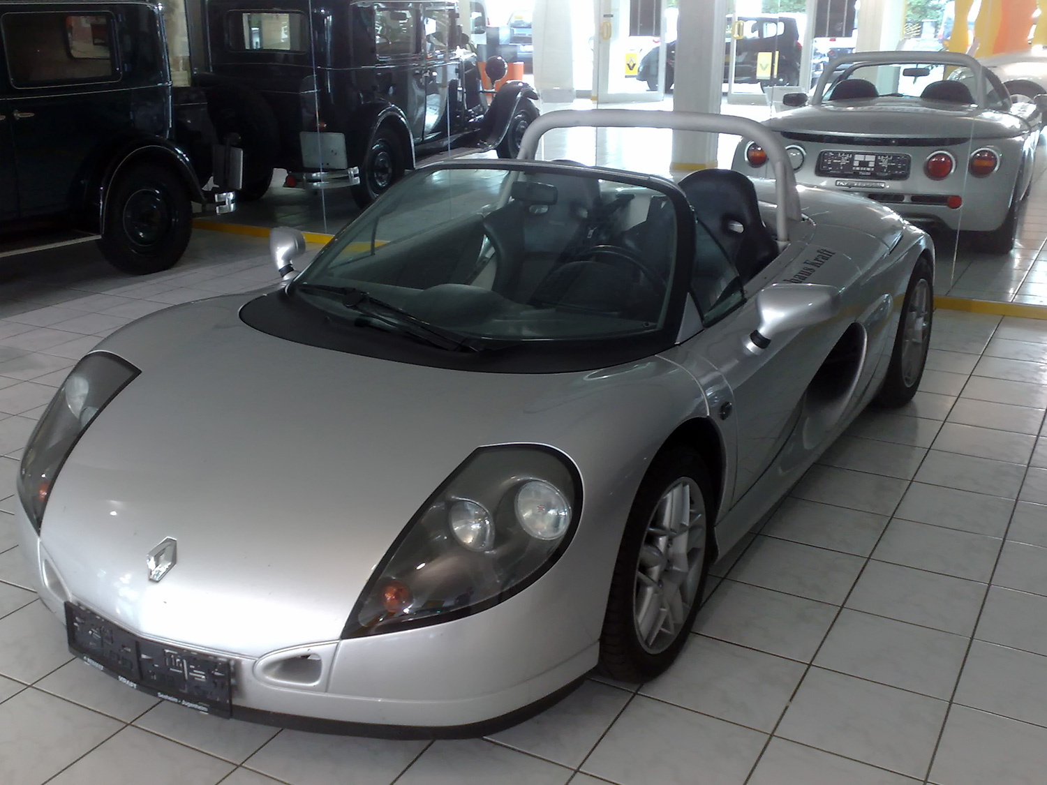 Silver Renault Sport Spider